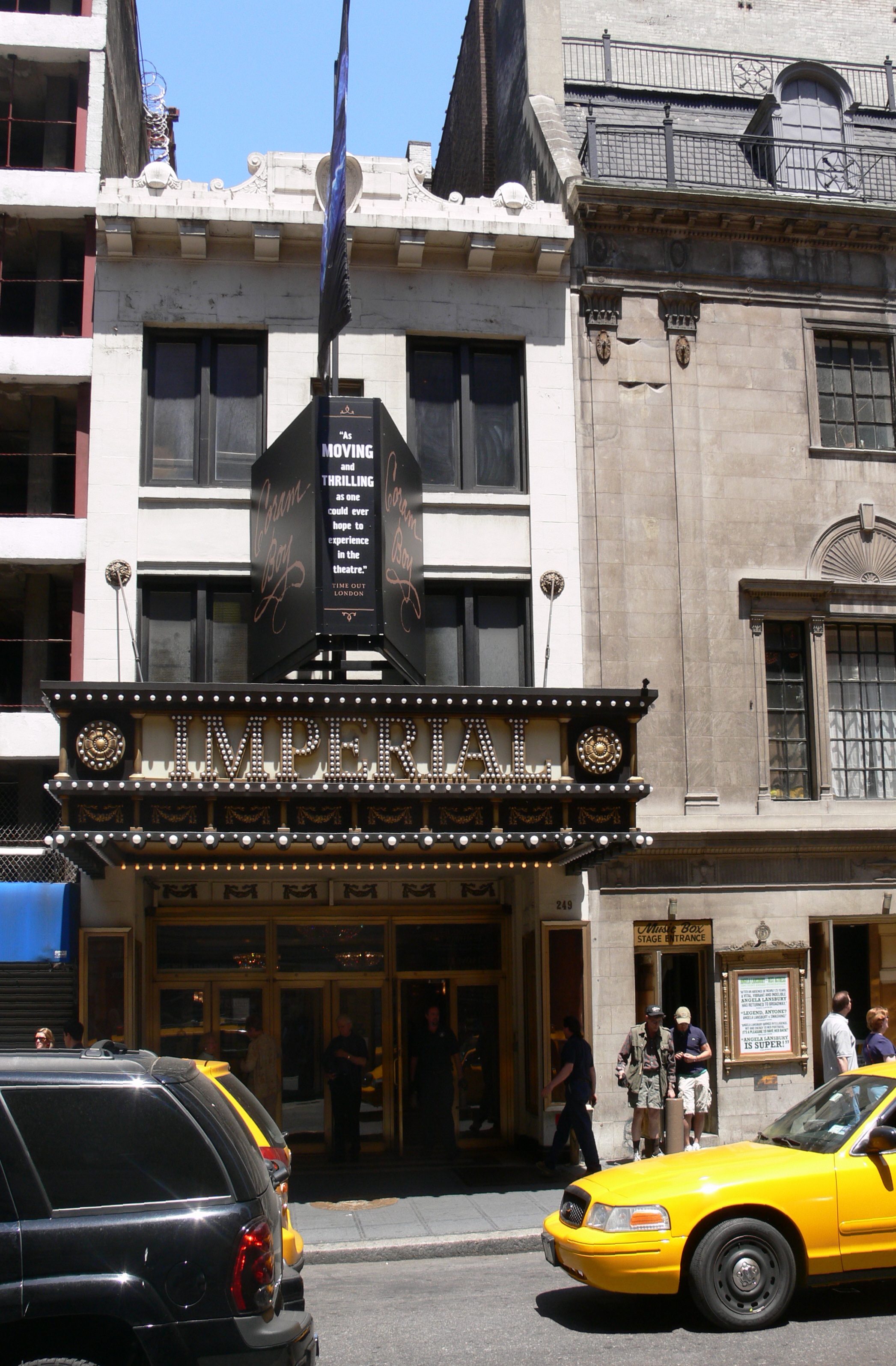 Imperial Theatre, advertising Coram Boy (closed 27 May 2007). The building on the right is the Music Box Theatre. 249 West 45th Street, Manhattan, New York City